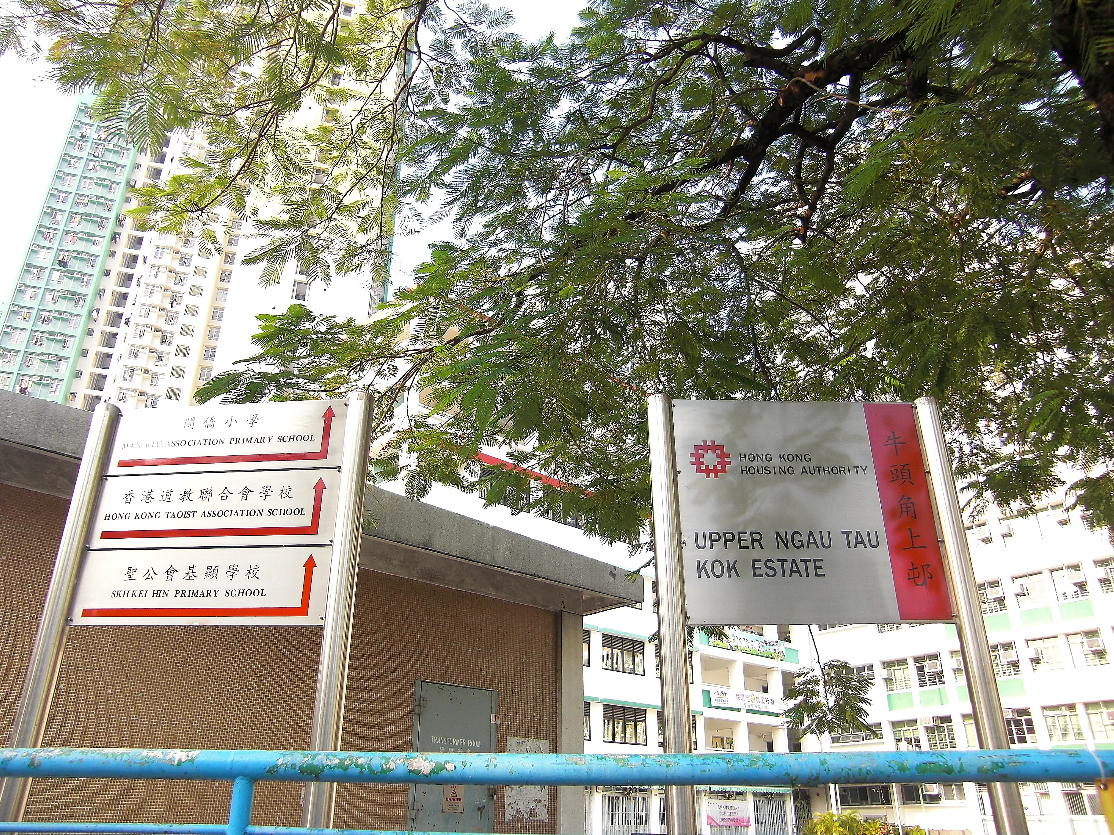 The renewed Upper Ngau Tau Kok Estate Estate Sign, which located at a corner of the junction between Ngau Tau Kok Road and On Shin Raod.